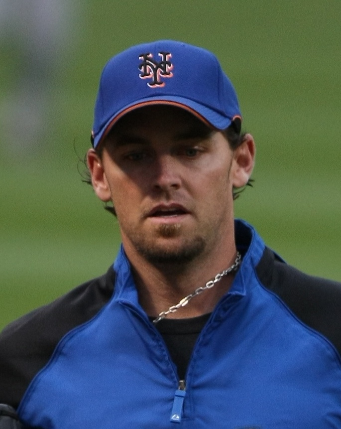 Jeremy Reed of the New York Mets, June 16, 2009.